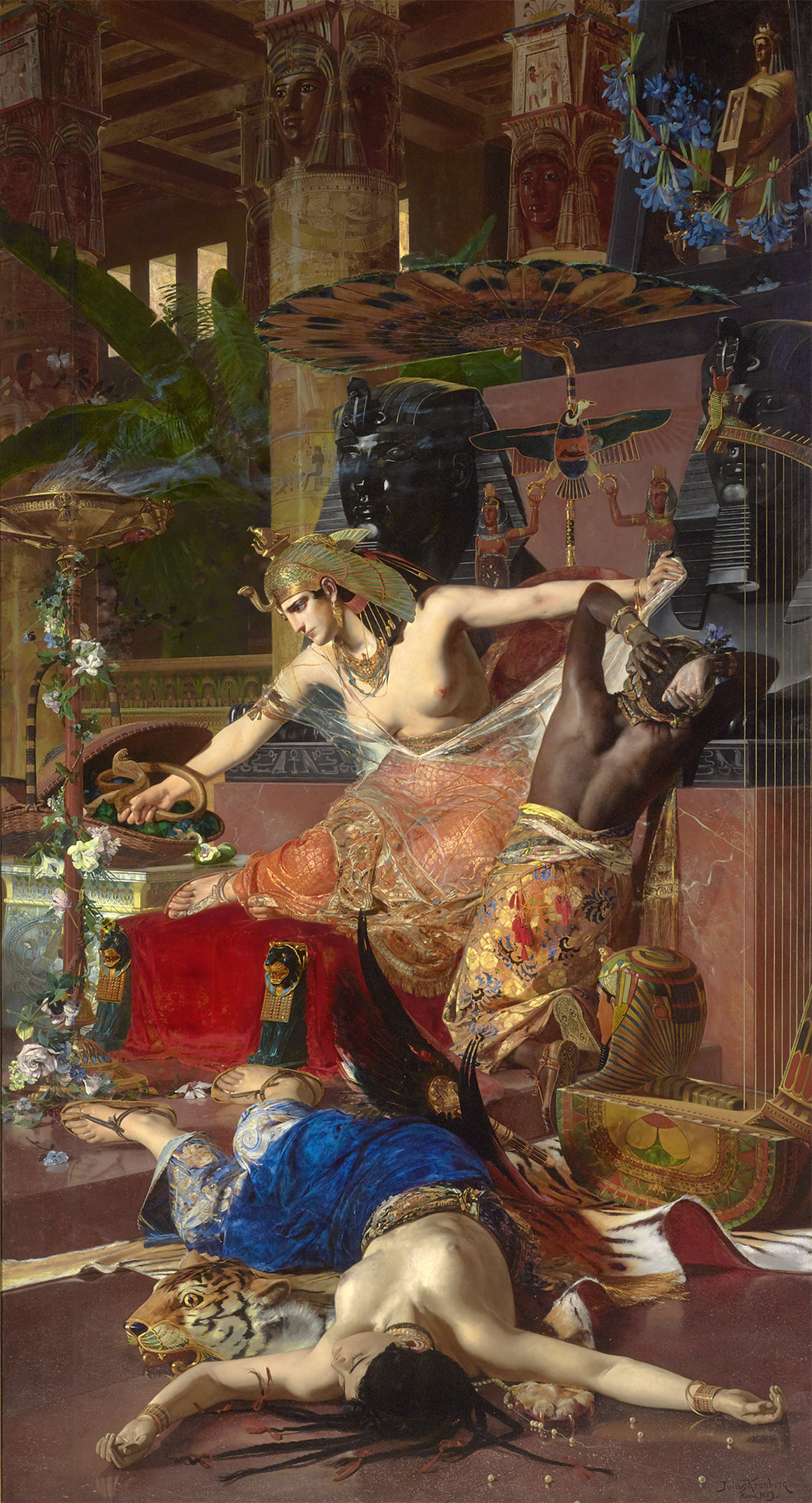 Cleopatra by Julius Kronberg. Signed and dated “Julius Kronberg Roma. 1883” (lower right). Minneapolis Institute of Art